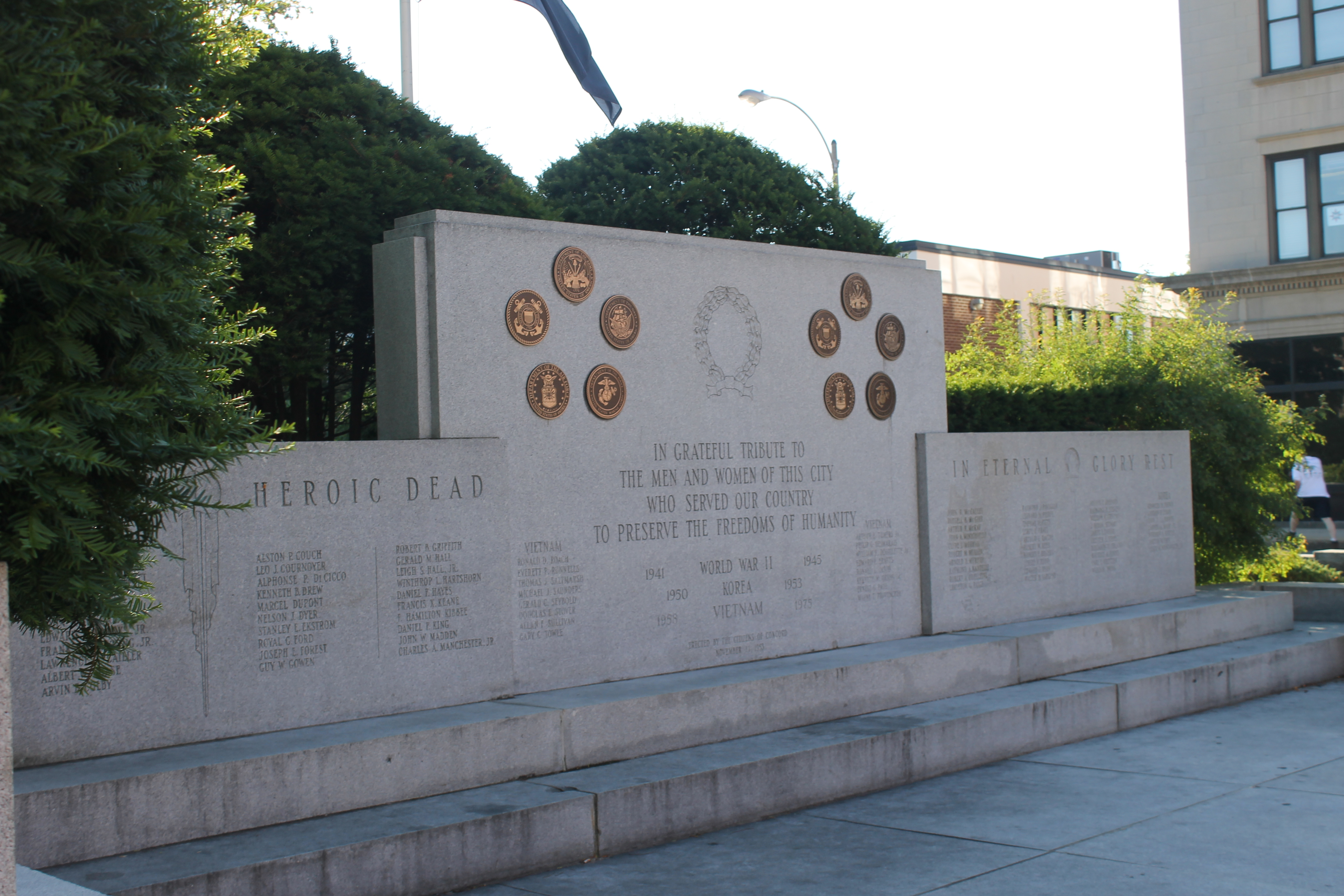 I took photo of Veterans Monument at grounds of state capitol in Concord, NH, using a Canon camera.